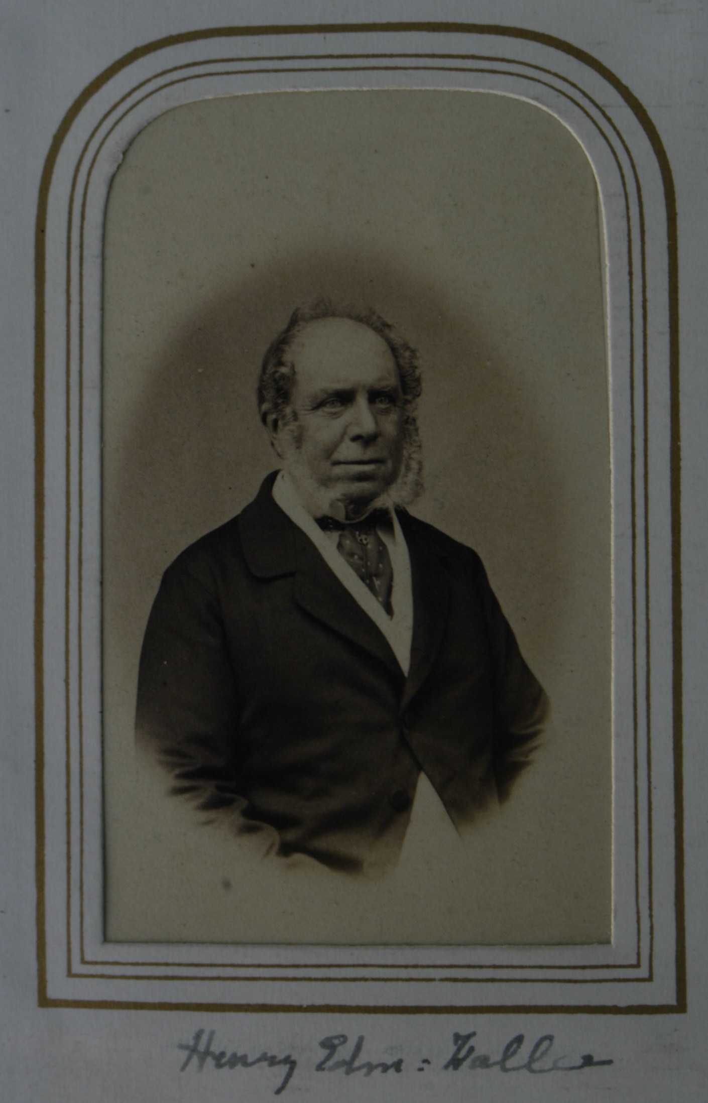 My digital photo (Rodolph (talk) 09:55, 18 May 2014 (UTC), R. de Salis) of a carte de visite (cdv) of Harry Edmund Waller, JP, DL (1804-69) of Farmington, Gloucestershire and Kirkby Fleetham, North Yorkshire. Related Work File:Carte_de_visite_(standing_with_top_hat)_of_Harry_Edmund_Waller,_JP,_DL_(1804-69)_of_Farmington_and_Kirkby_Fleetham.jpg|thumbnail|left|Another carte de visite of Harry Edmund Waller, JP, DL (1804-69). Possibly by Camille Silvy.